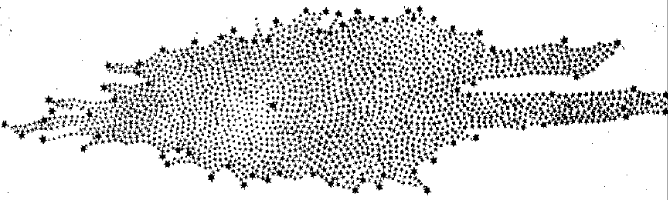 The shape of our Galaxy as deduced from star counts by William Herschel in 1785; the solar system was assumed near center. (NOTE: The image shown is flipped 180 degrees on the horizontal axis from the original, as first published in the Philosophical Transactions of the Royal Society in 1785; the bifurcated arms of the illustration should be on the left.)